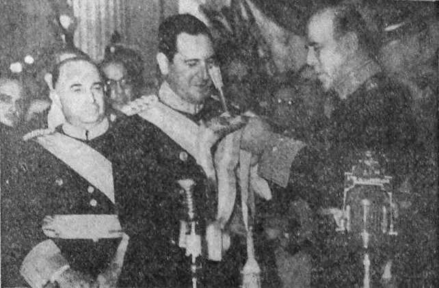 The president elect, Colonel Juan Domingo Perón, receiving the presidential symbols from the outgoing president, General Edelmiro Farrell.